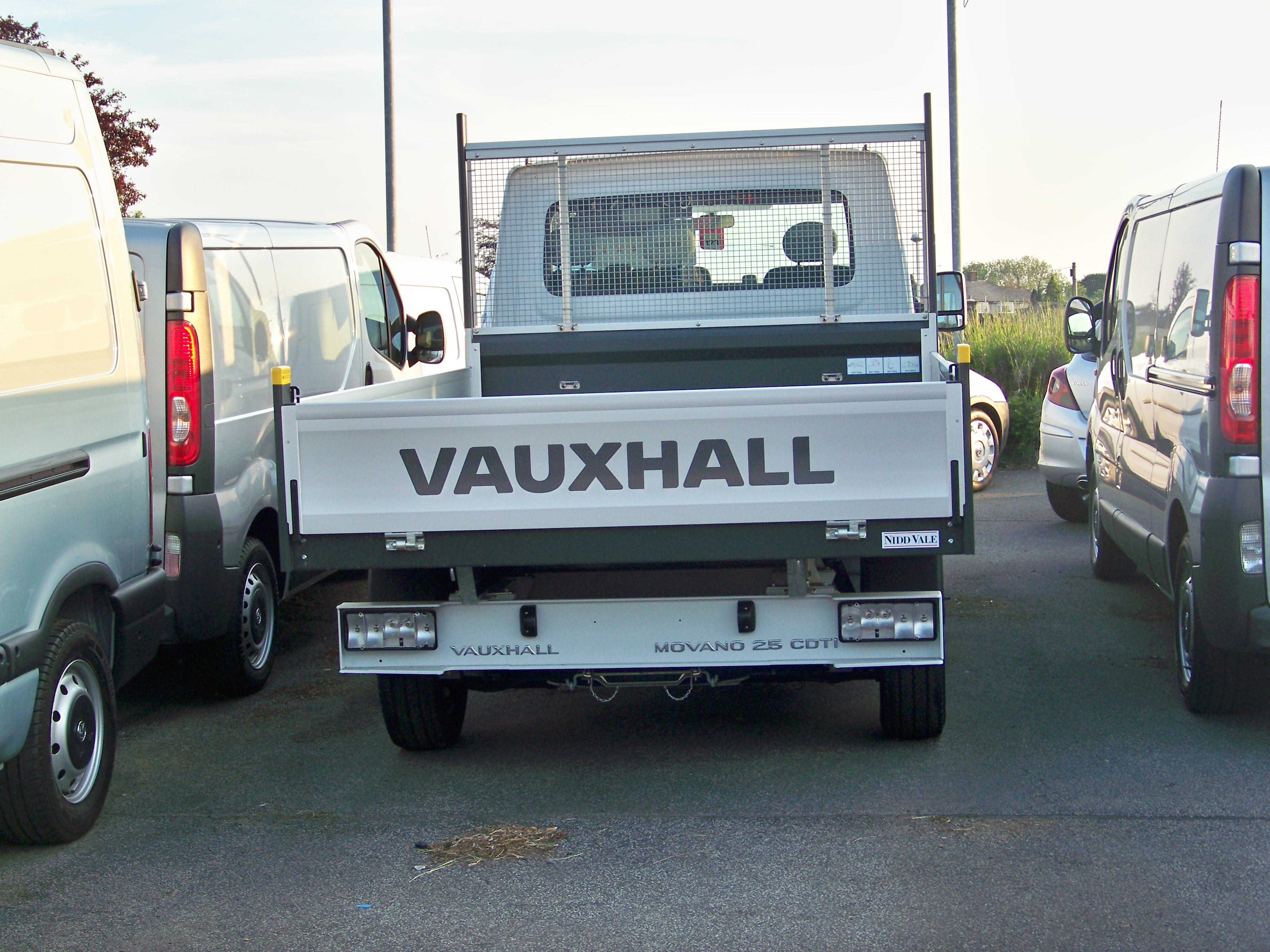 Vauxhall Movano pick up. Taken in Wetherby, West Yorkshire. Taken on the 2nd June 2009.